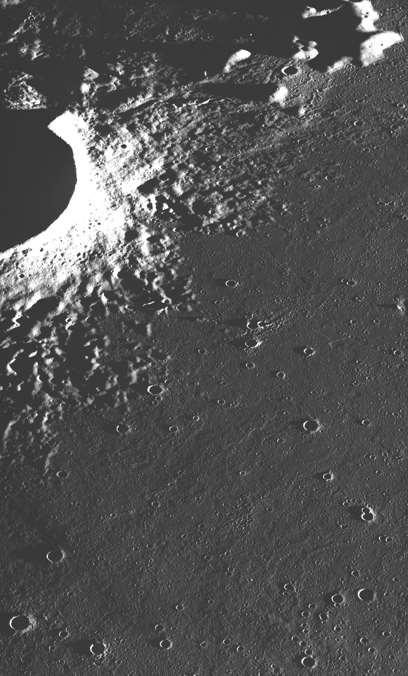 Oblique view of Lichtenberg, on the moon. Approximate north at top. One of the last photos taken by Apollo 15 prior to trans-Earth injection. Shows comparatively recent mare material at right of crater.Original caption is as follows:Crater Lichtenberg (L; 20 km), northwestern Oceanus Procellarum. Blackand-white north arrow shows same point in A and B.A. Telescopic view suggesting sharp truncation of Lichtenberg materials by discrete dark unit.B. Lichtenberg ejecta flooded by mare basalt (white arrow) and thinly mantled by darkmantling material (d). Orbiter 4 frame H-170.C. Detail. Apollo 15 frame P-0370.